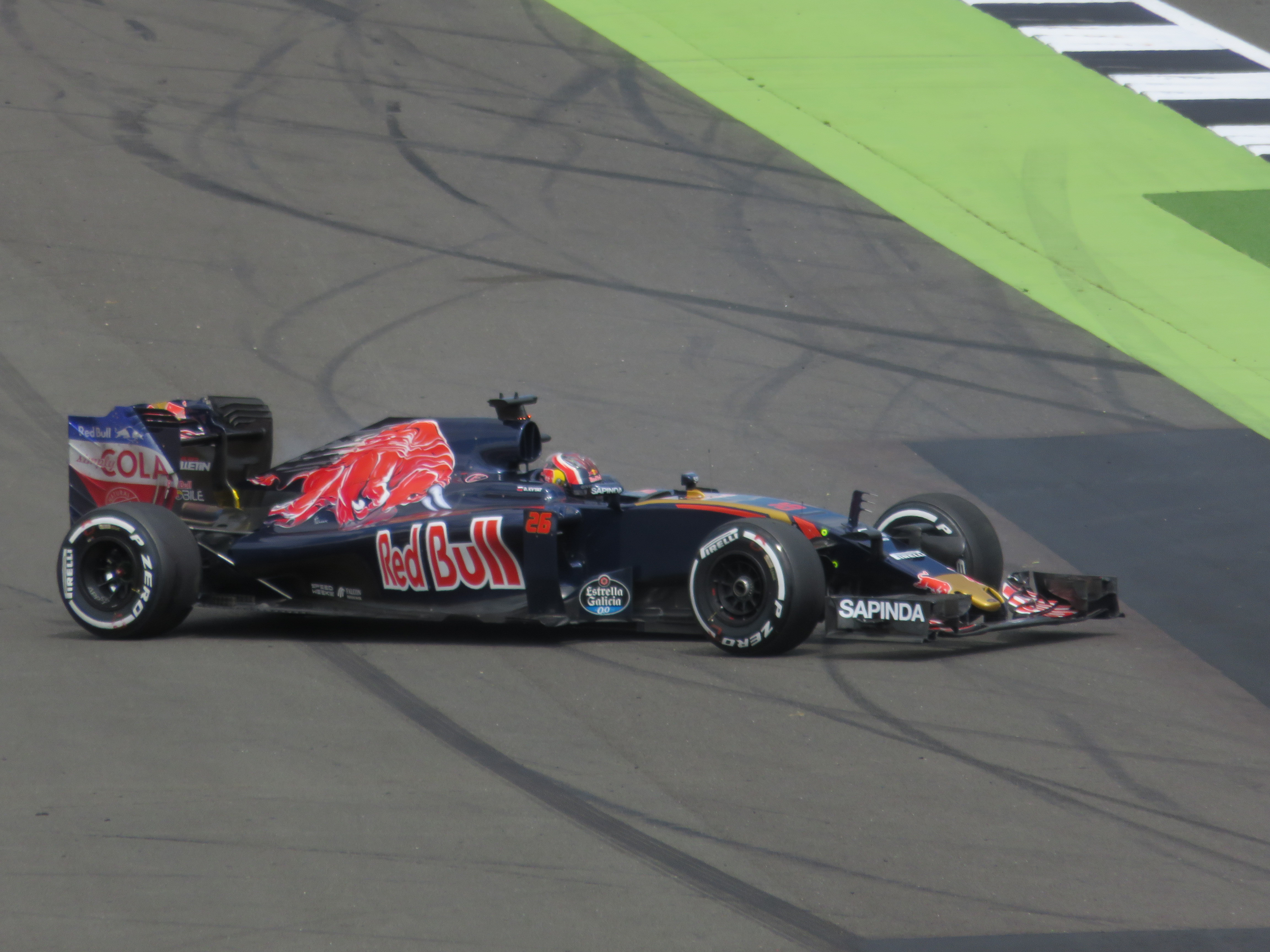 Daniil Kvyat in the 2nd FP, 2016 British GP